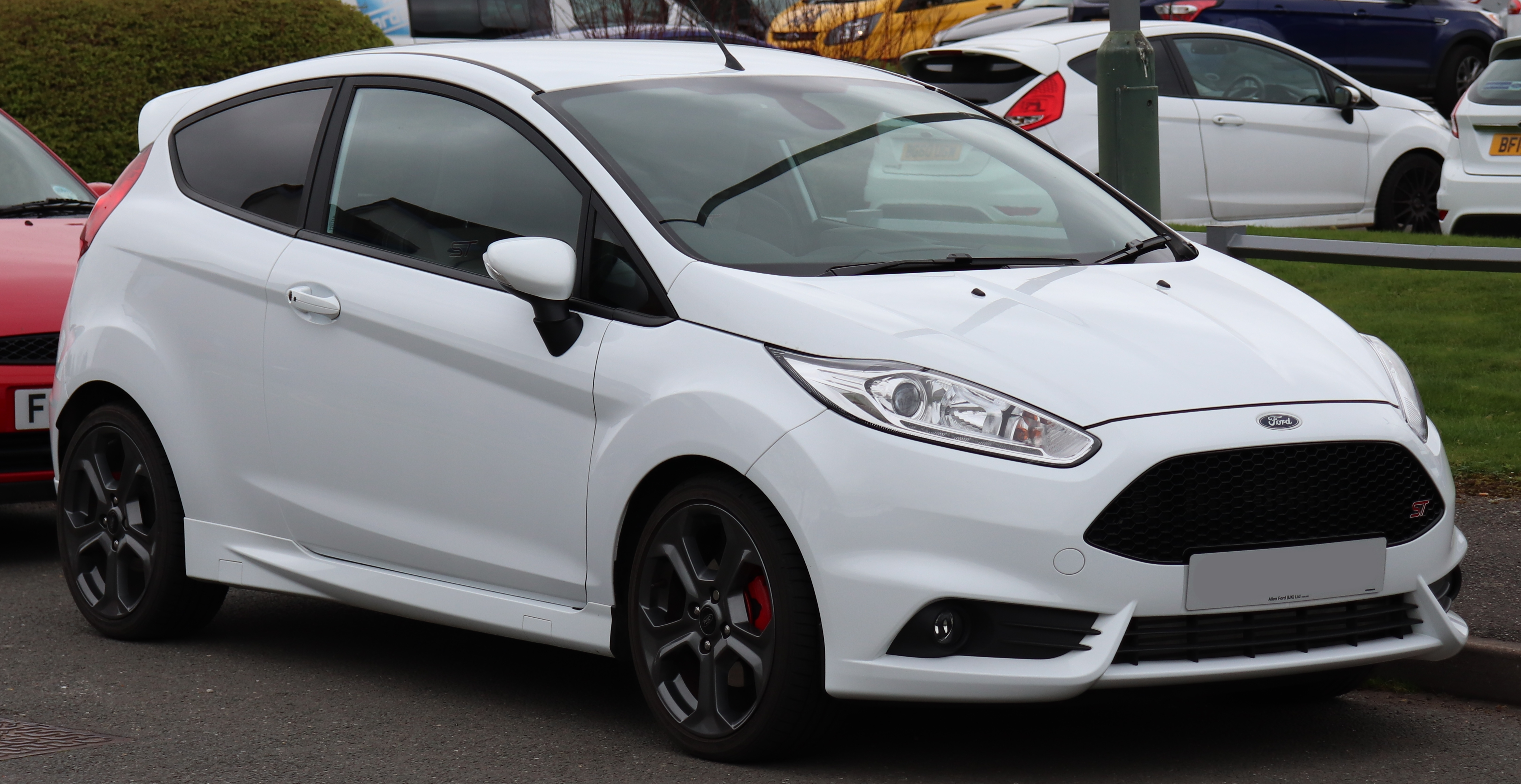 2017 Ford Fiesta ST-3 Turbo 1.6 Front Taken in Leamington Spa (Messed up the focusing on this one)